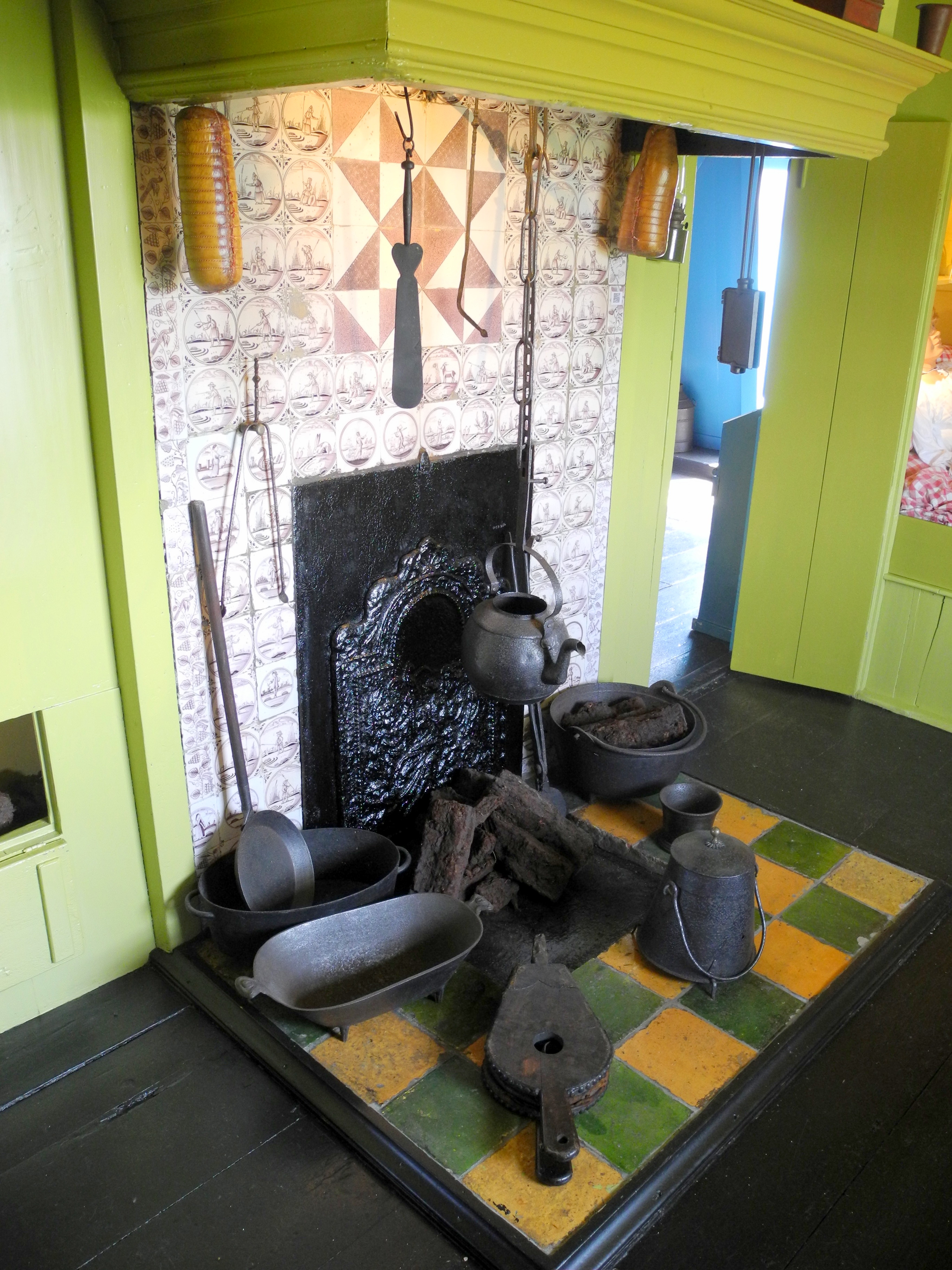 Kitchen fireplace of ondermolen D, a windmill in Schermerhorn.